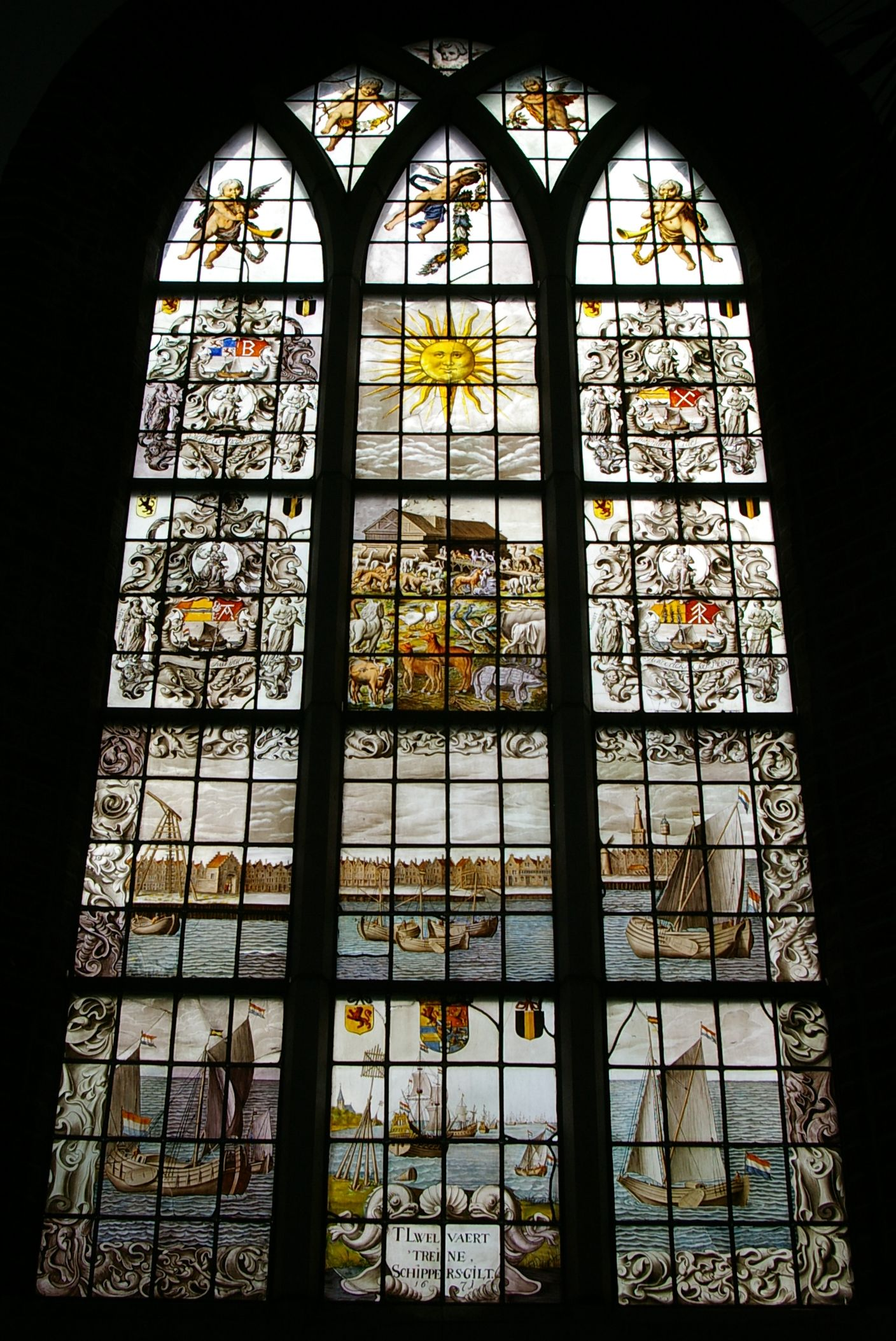 one of six stained-glass windows of Bonifacius-church, Medemblik, The Netherlands